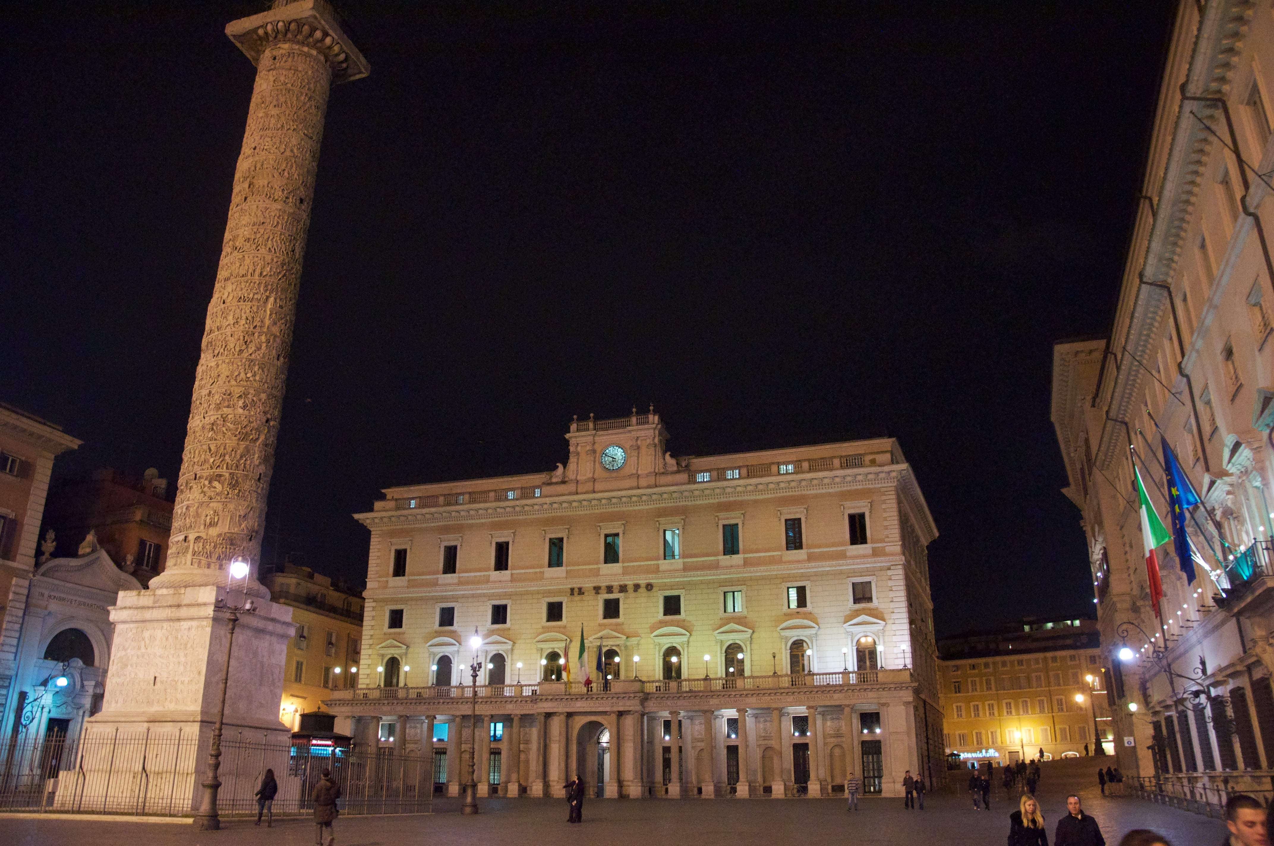 Piazza Colonna, Rome, by night